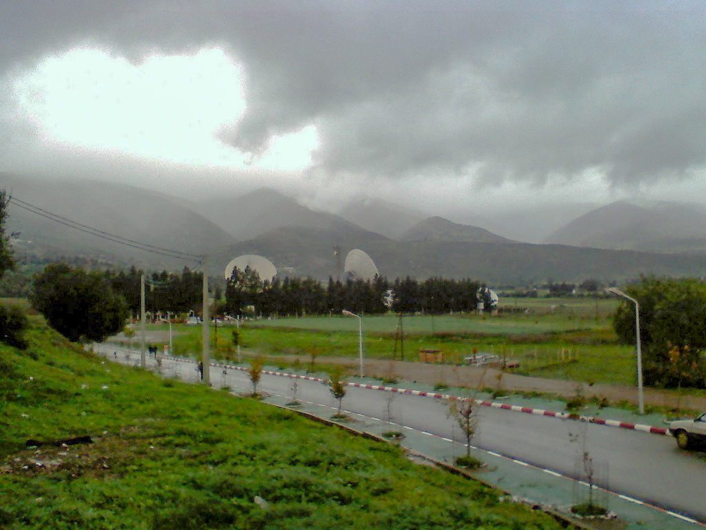 The RevSat official center in Algeria